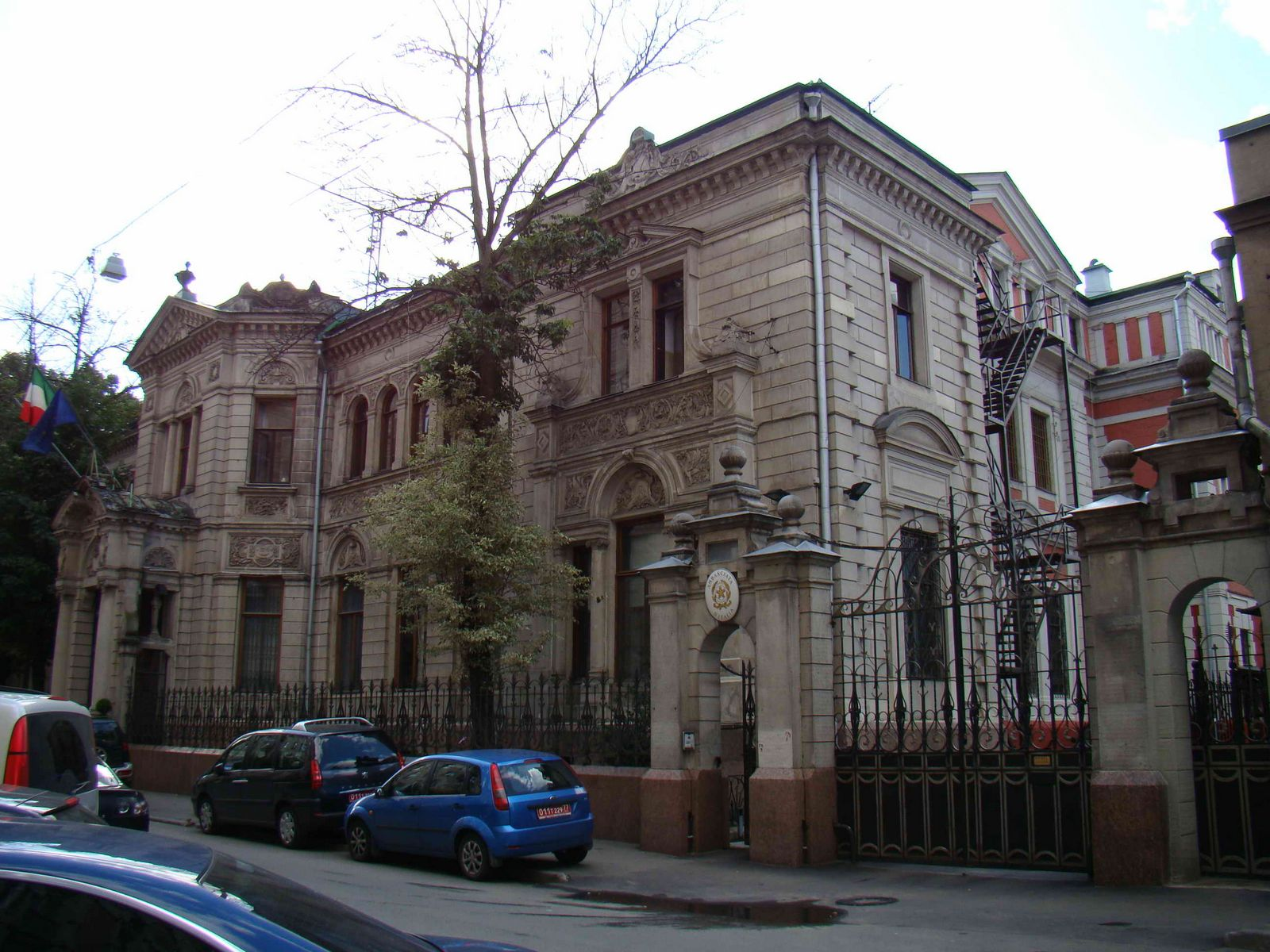 Embassy of Italy in Moscow